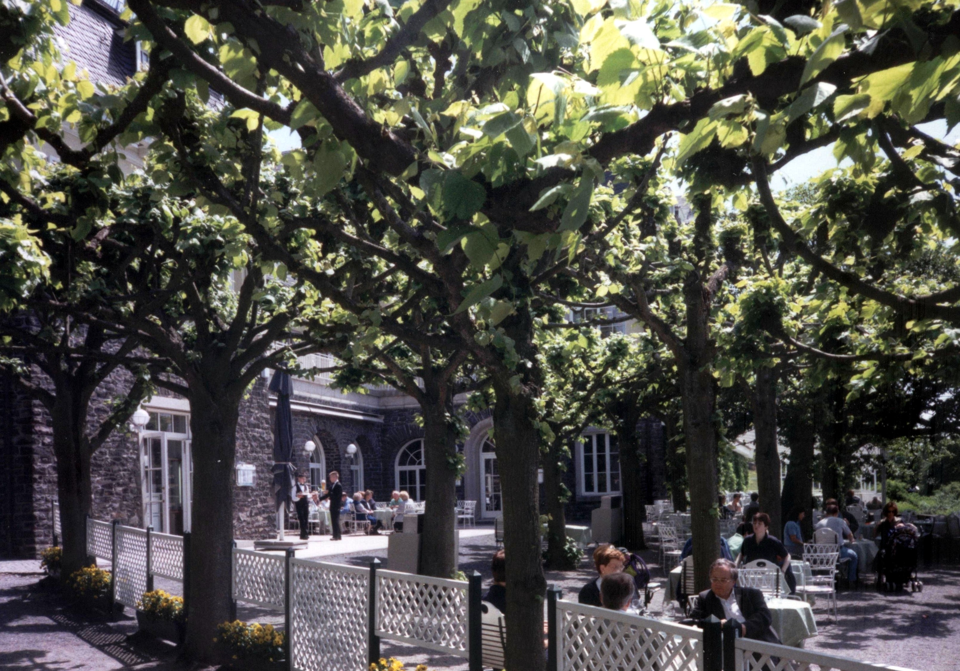 hotel terrace on Petersberg in Königswinter near Bonn.